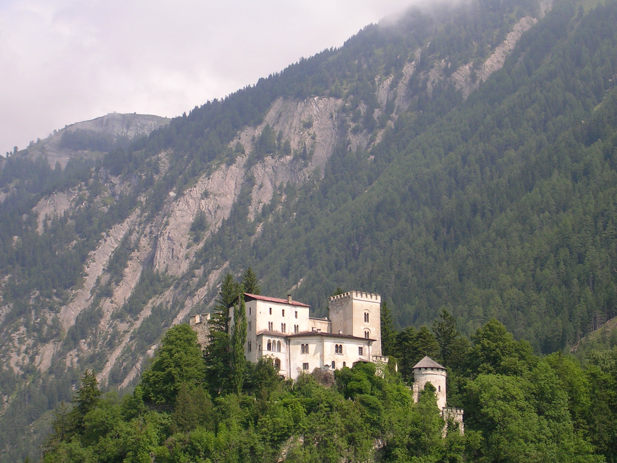 Castel Weissenstein outside of Matrei in Osttirol This media shows the remarkable cultural object in the Austrian state of Tyrol listed by the Tyrolean Art Cadastre with the ID 38668. (on tirisMaps, pdf, more images on Commons, Wikidata)